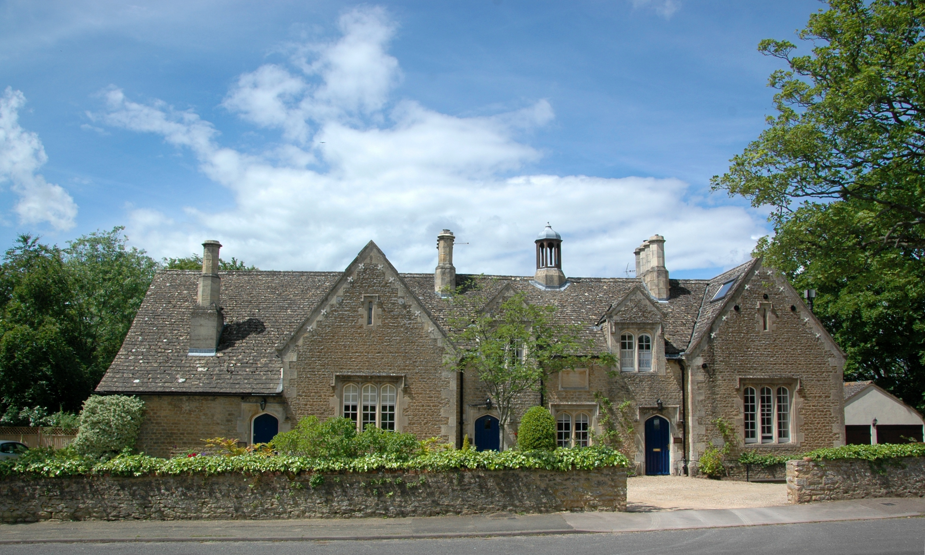 Former parish school at Garsington, Oxfordshire, built in 1840